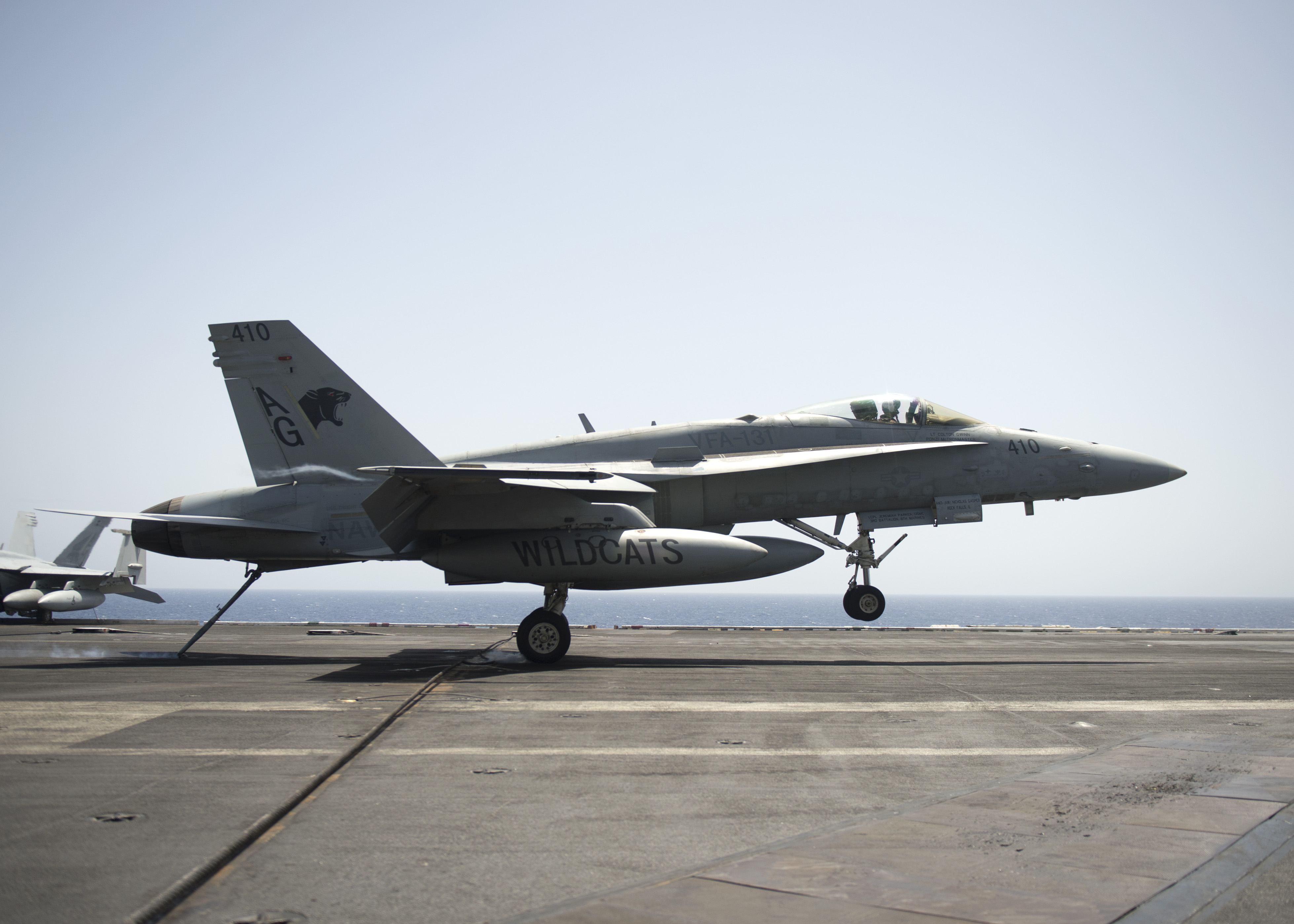 A U.S. Navy F/A-18C Hornet aircraft assigned to Strike Fighter Squadron (VFA) 131 lands aboard the aircraft carrier USS Dwight D. Eisenhower (CVN 69) in the Red Sea June 11, 2013. The Dwight D. Eisenhower was underway in the U.S. 5th Fleet area of responsibility supporting maritime security operations, theater security cooperation efforts and support missions as part of Operation Enduring Freedom.